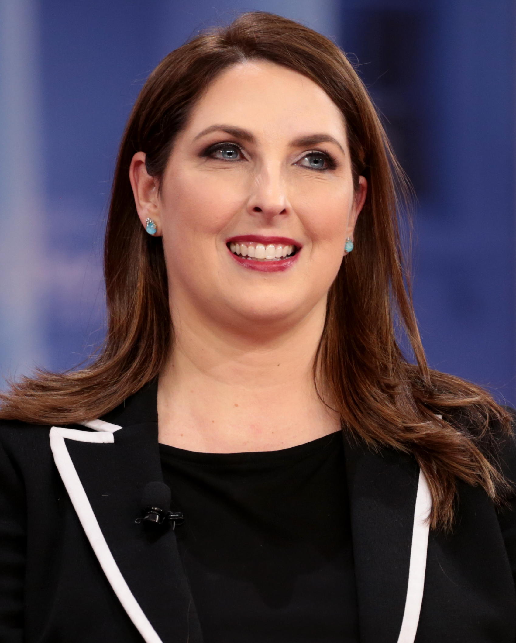 RNC Chairwoman Ronna McDaniel speaking at the 2018 Conservative Political Action Conference (CPAC) in National Harbor, Maryland.